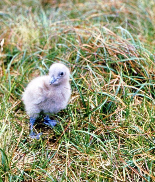 Great Skua chick in Glen Mor